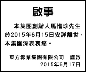 The death notice the co-founder of the Oriental Daily News, Ma Sik-chun